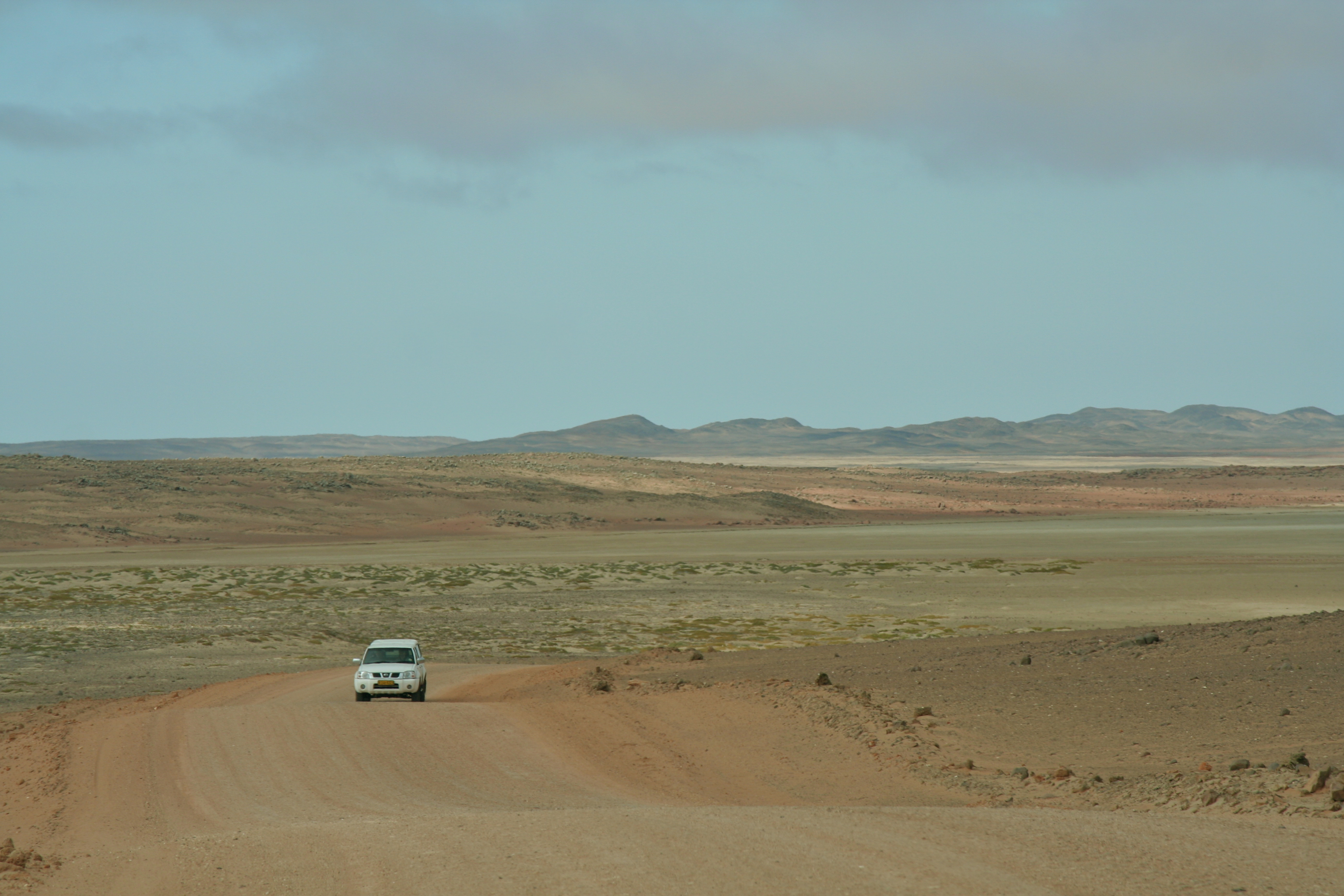 This is an image with the theme "Africa on the Move or Transport" from: Namibia